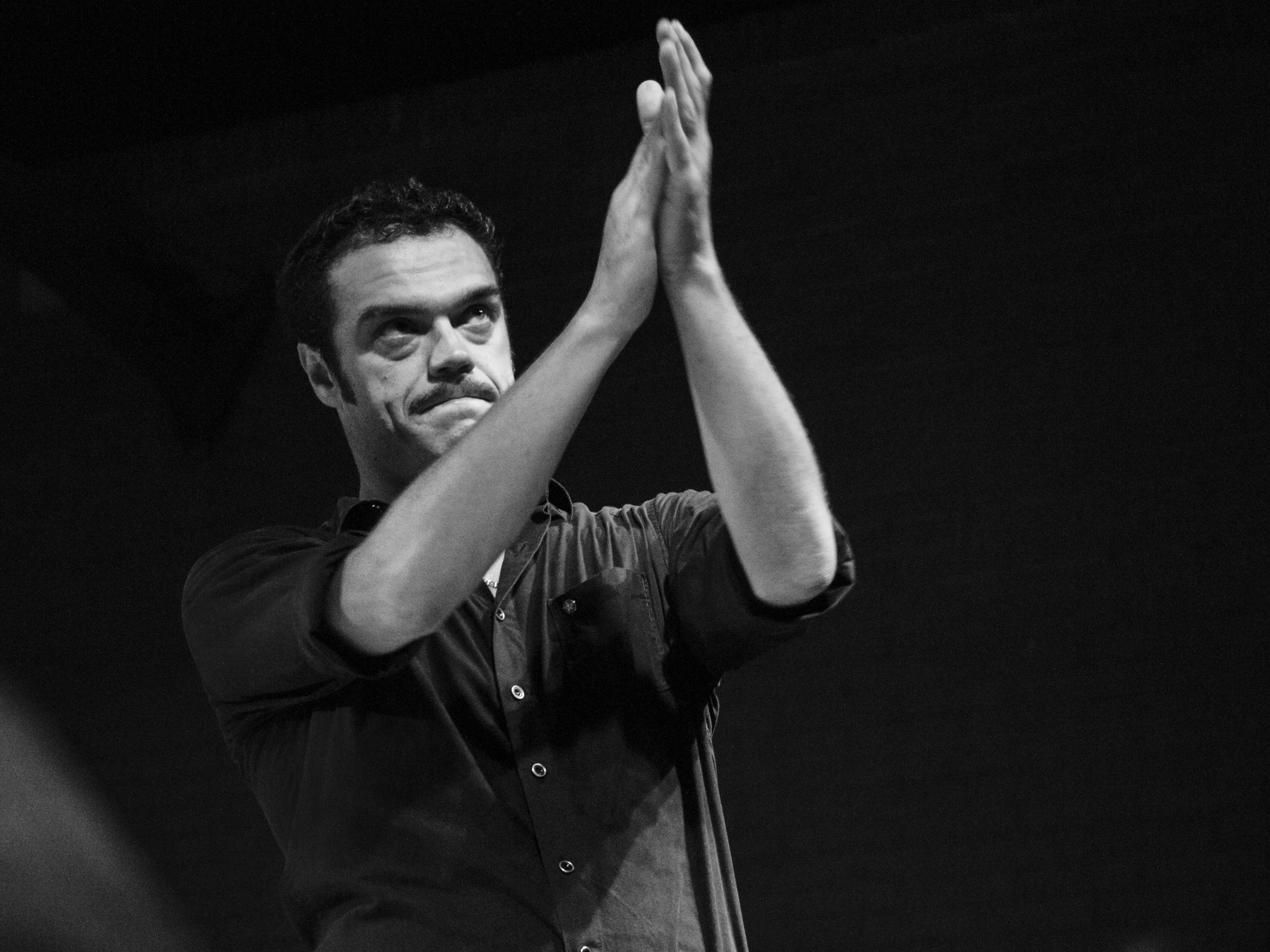 Emi at the Prato UniverCity live show with Linea 77